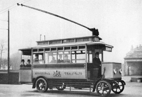 Original caption:One of 10 single-deck trolleybuses built in 1915 by the R.E.T. Construction Co. Ltd., Leeds, for the Bloemfontein Municipality, South Africa. Regular service began in January 1916.